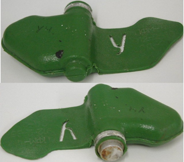 2 side view of the Soviet anti-infantry cluster landmine PFM-1 NATO name: Blue parrot, butterfly mine. This is the inert training version, identified by the punch-out and solid 'fuze'.